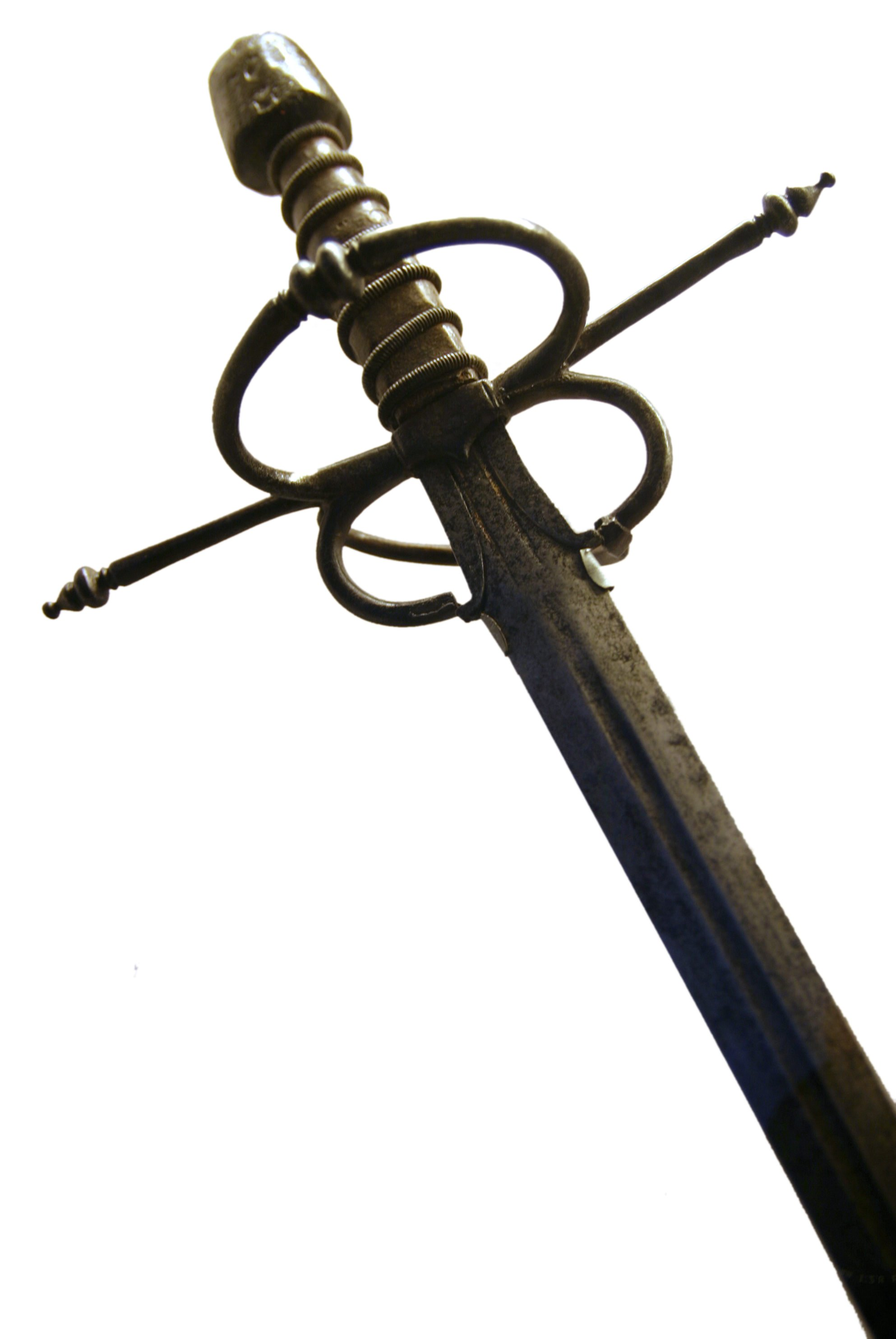 Rapier on display at Castel of Chillon